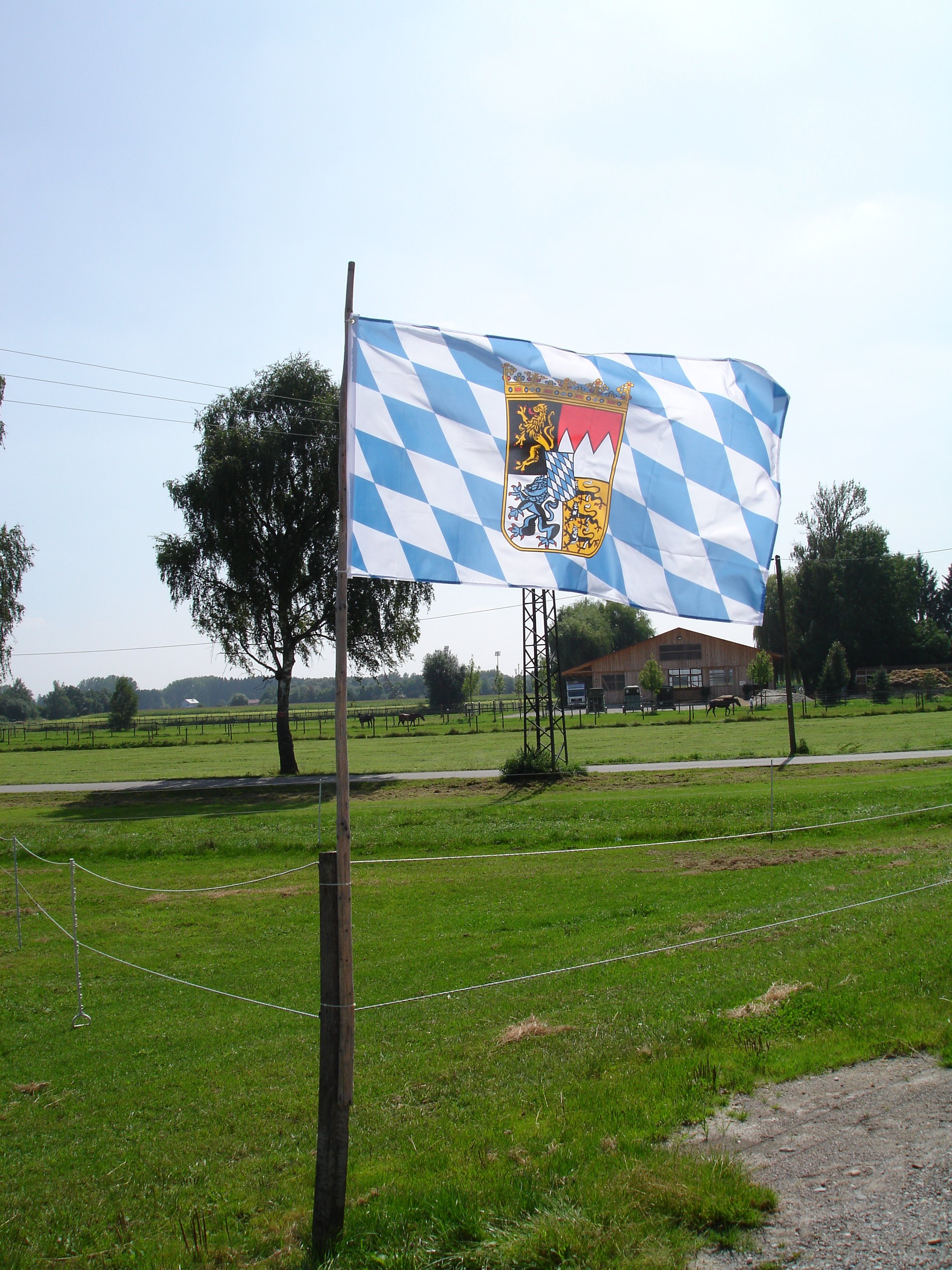 unofficial flag of Bavaria with CoA without lions